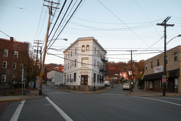 Picture at intersection of East Crafton, Noble and Dinsmore Avenues in Crafton, Pennsylvania, on November 1, 2009.